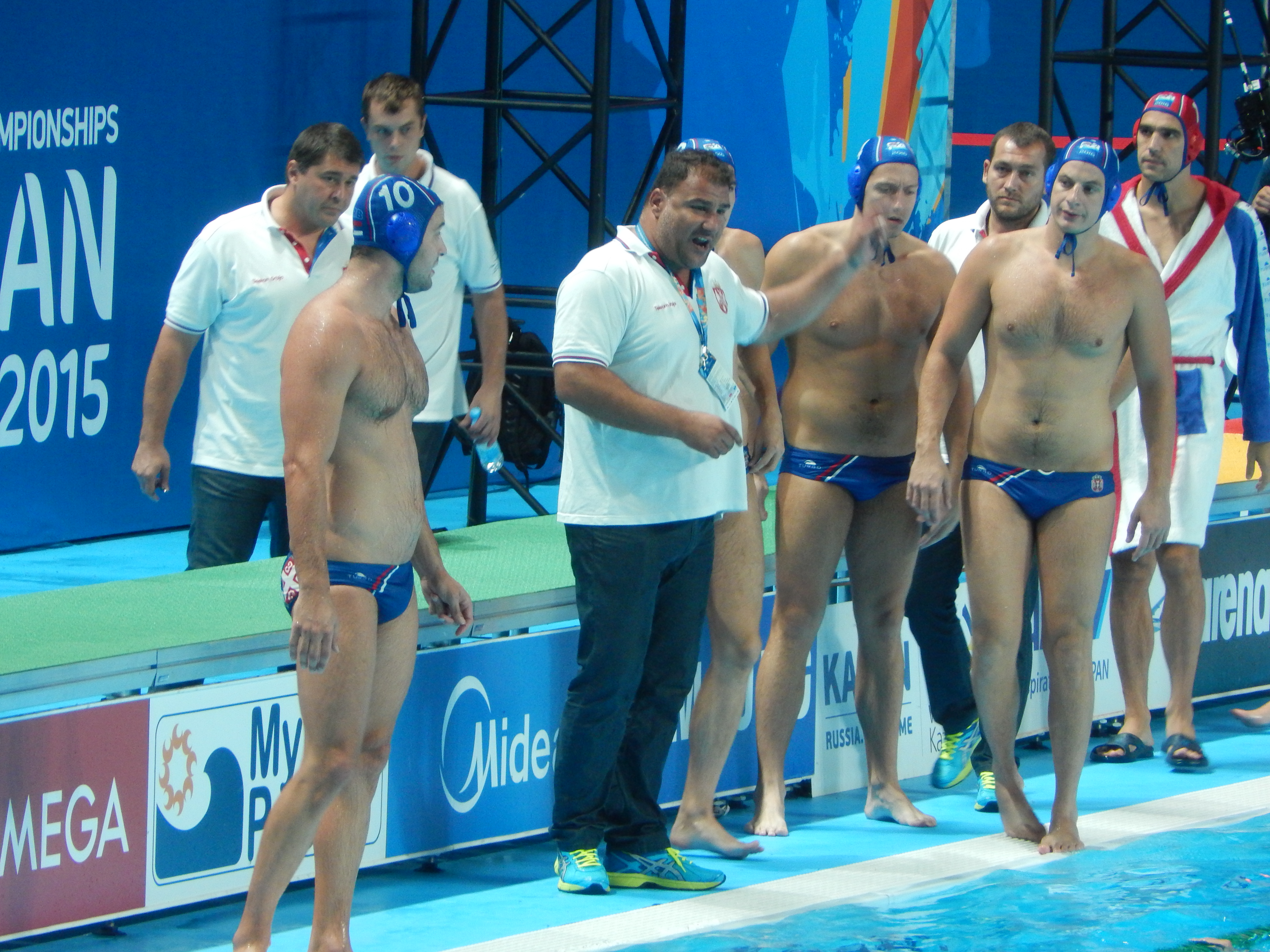 The gold medal match between Team Serbia and Team Croatia and the victory ceremony. All photos have been taken from the photographers sector. I was simply usual visitor but my ticket was to non-existent seats, therefore I was moved to that sector. All good photos I upload to WikiCommons for free use.